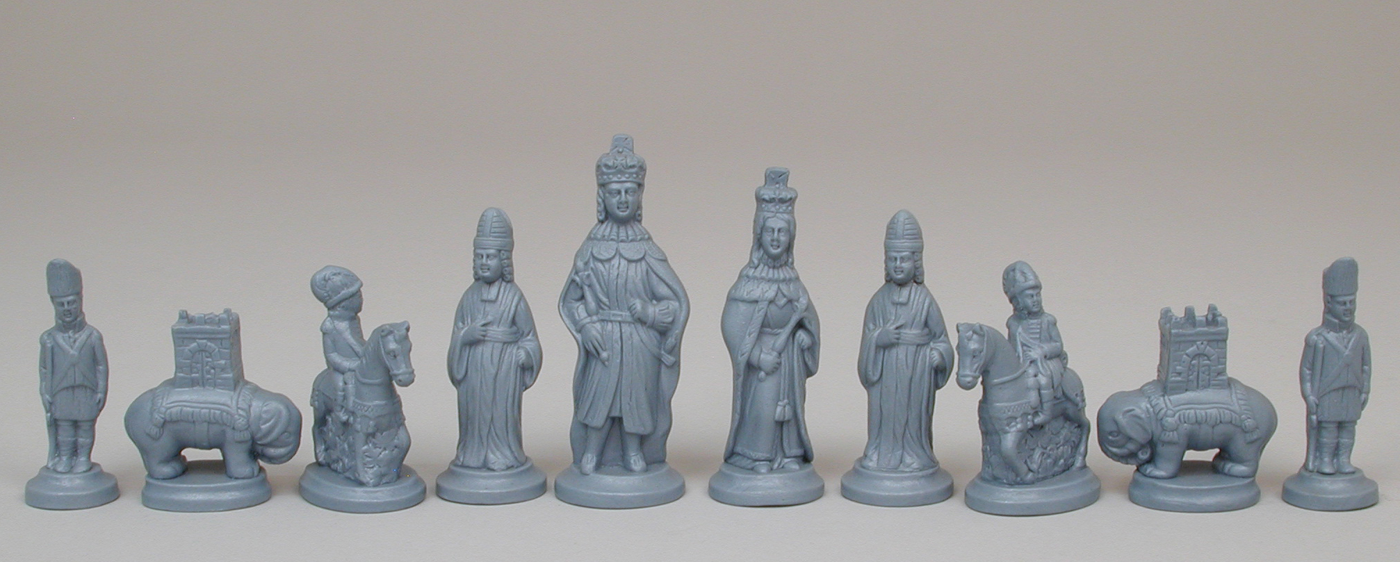 British, Castleford; Chessmen; Chess Sets